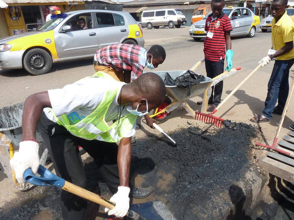 Pais:Ghana cleaning a market place in Accra. March 2015.